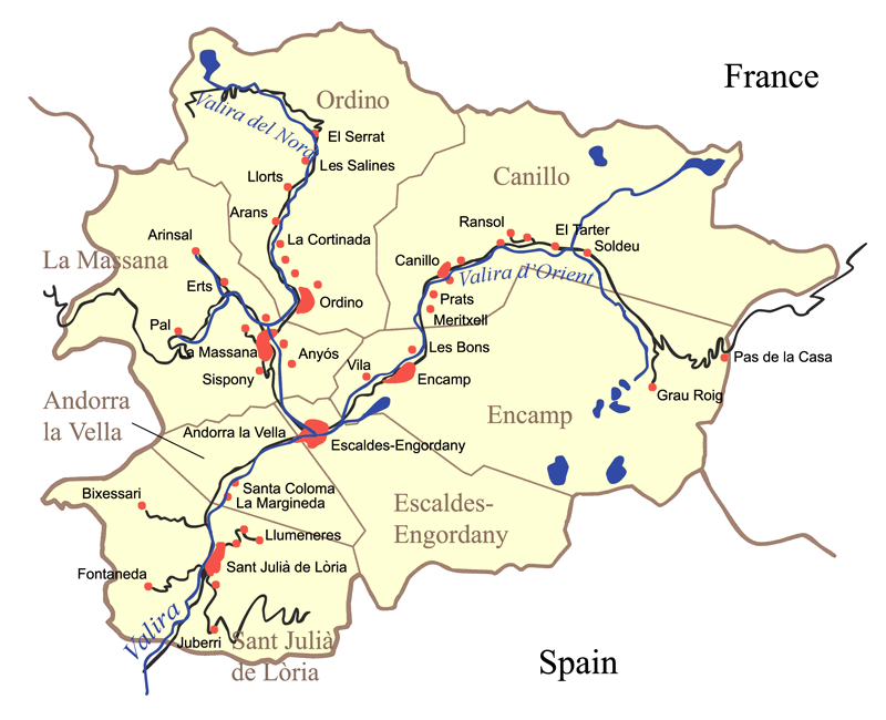 General map of Andorra. I, Karl Musser, created it based on a map on the Andorra government web page.